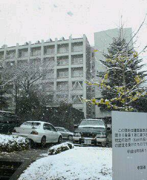 This is the building of Department of EARTH SCIENCES, Graduate School of Science, Tohoku University.